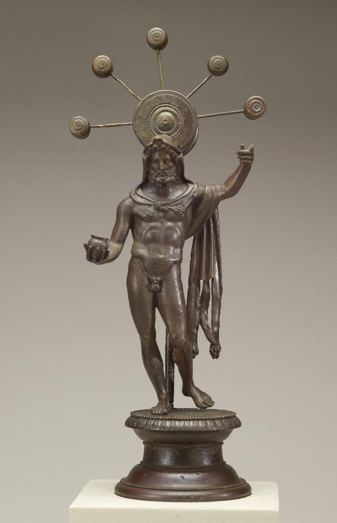 Sucellus was a major Gaulish deity associated with the underworld, whose attributes include his wolf-skin garment, a mallet or hammer (now missing from his upraised hand), and a small jar called an "olla." This statuette is the earliest and finest of any known Sucellus image. The portrayal is reminiscent of Classical Greek style, and he resembles the Greek hero Heracles. Behind him, like a symbol of worship, appears an oversized mallet with five smaller mallets radiating from it. The statuette was excavated from the "lararium" (household shrine) of a Roman house in France.